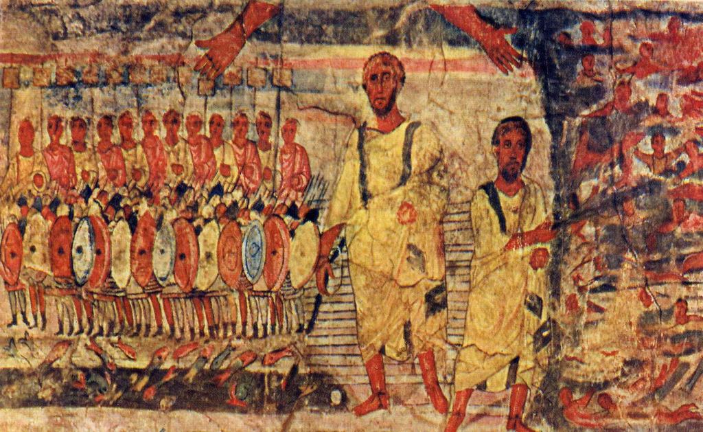 Jews cross Red Sea pursued by Pharoah. Fresco from Dura Europos synagogue